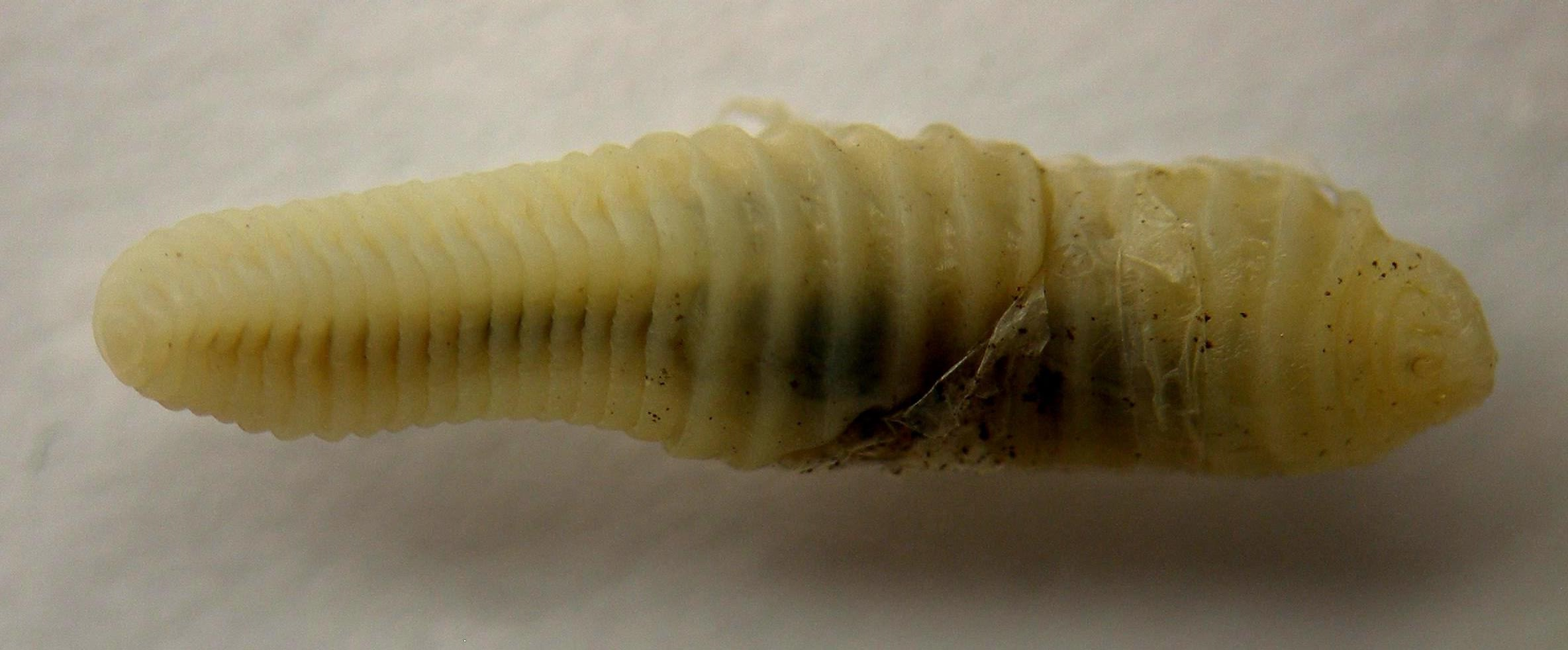 A nymph of Armillifer grandis surgically removed from the eye of a blind man